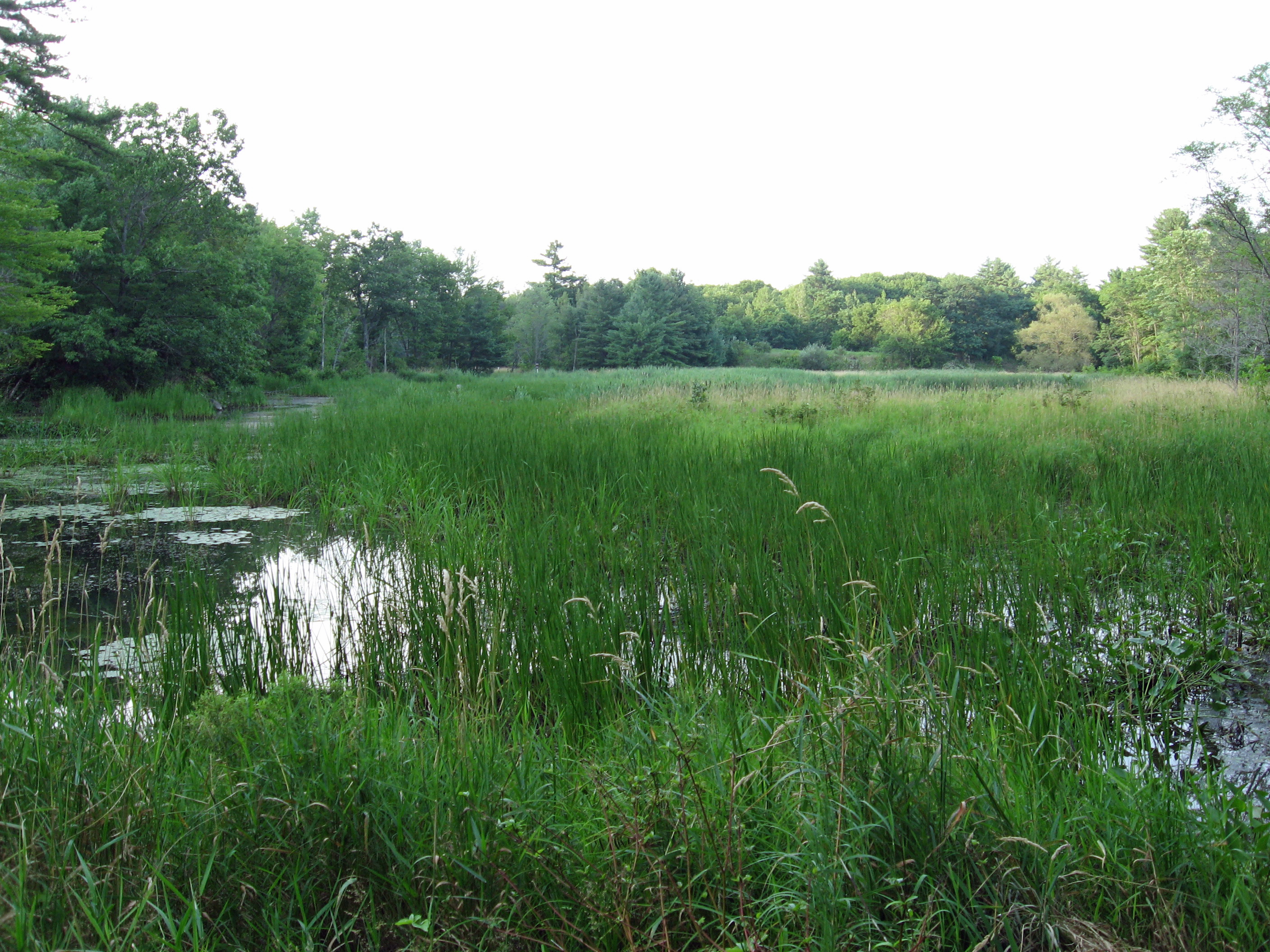 A wetland on Marsh Island between Orono and Old Town, Maine